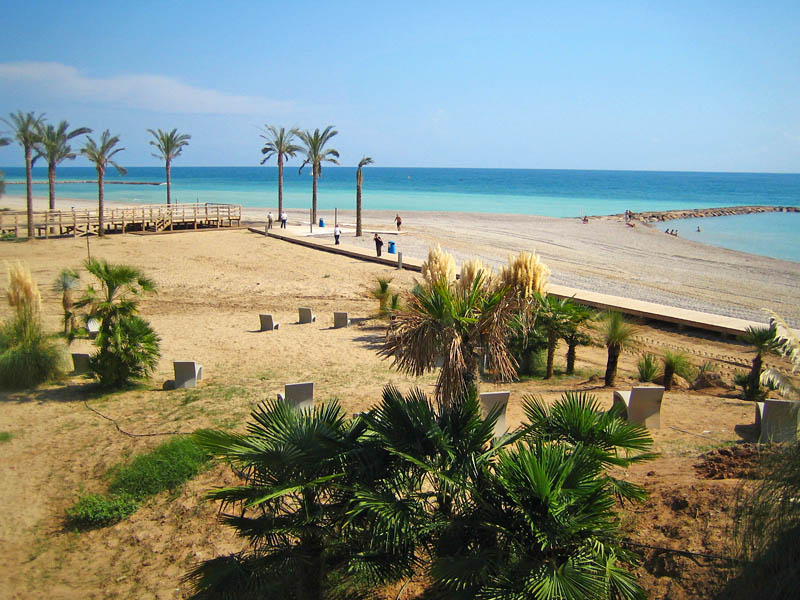 Photo of a beach at Benicàssim, Castellon (Spain).